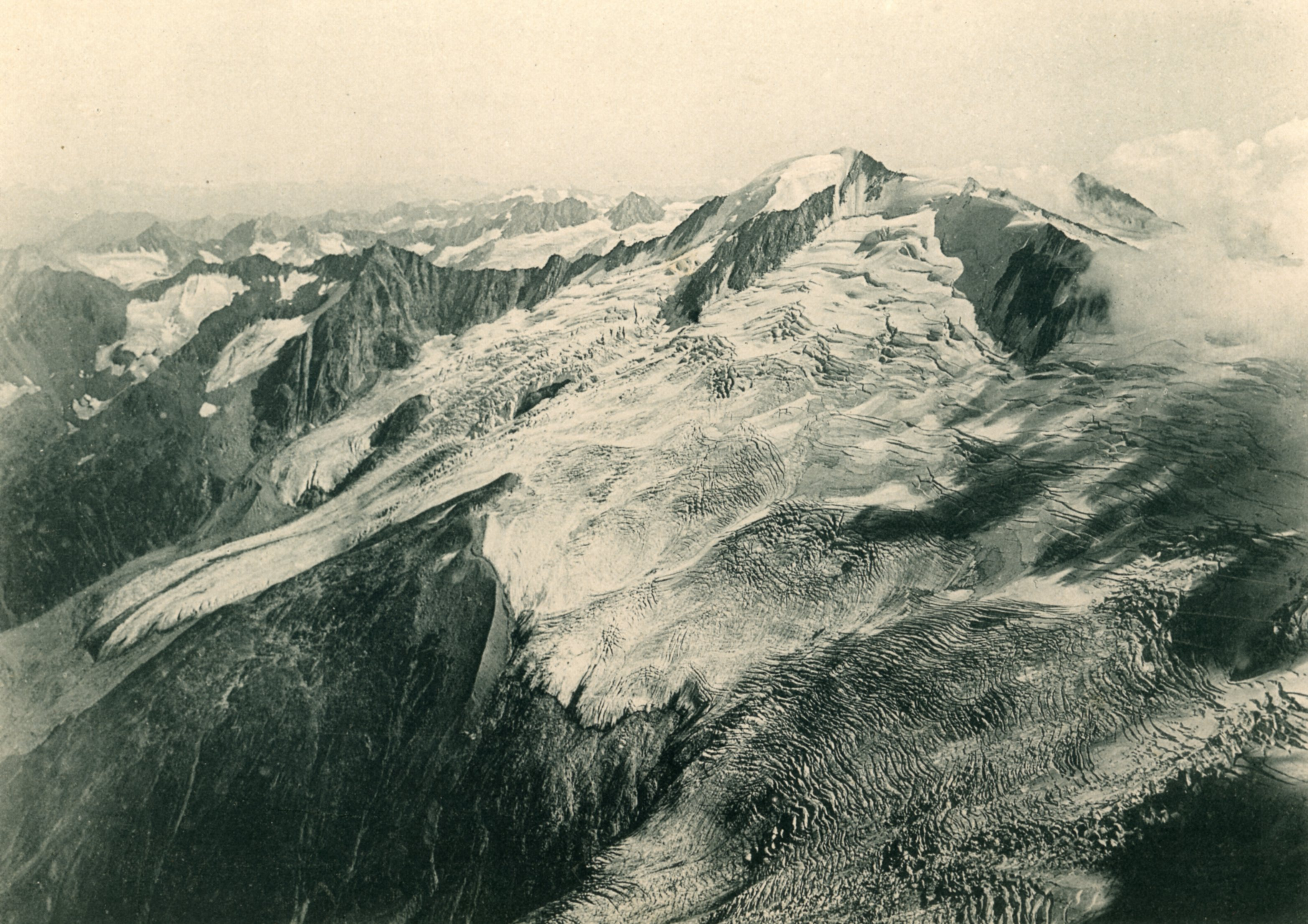 Scan from a historic book, 1894